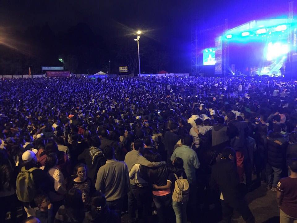 Bogotá Gospel en su séptima edición año 2016.